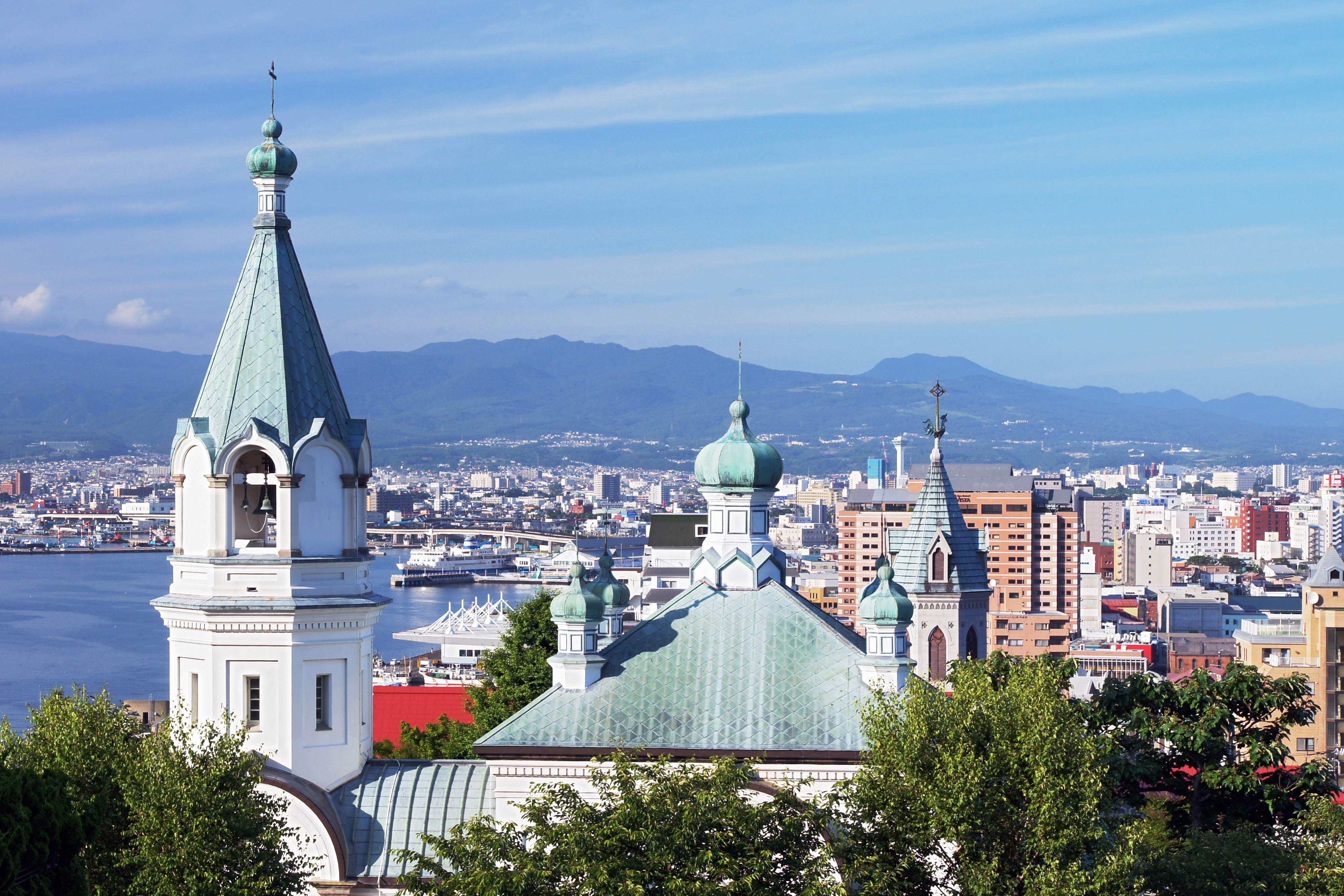 Cityscapes of Hakodate, Hokkaido prefecture, Japan